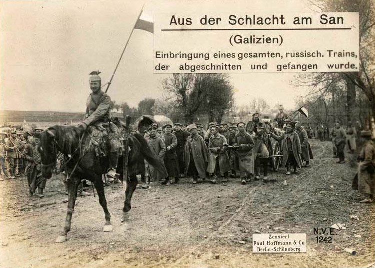 Aus der Schlacht am San